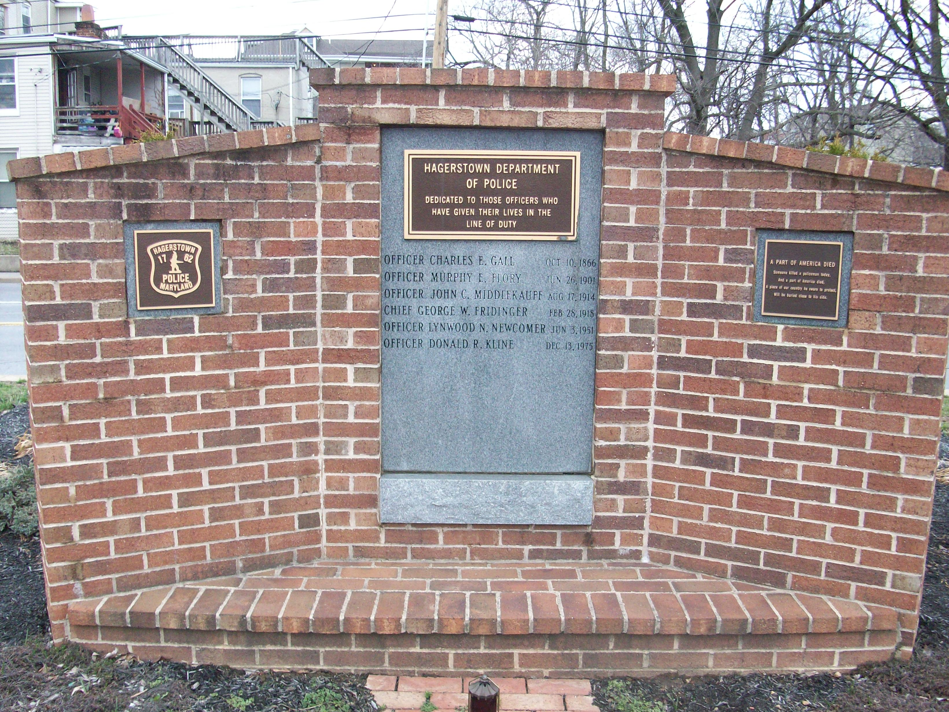 Memorial to police officers killed in the line of duty of the Hagerstown Police Department outside of the police headquarters building in Hagerstown, Maryland. As of March 2011 it had six names listed of fallen officers.